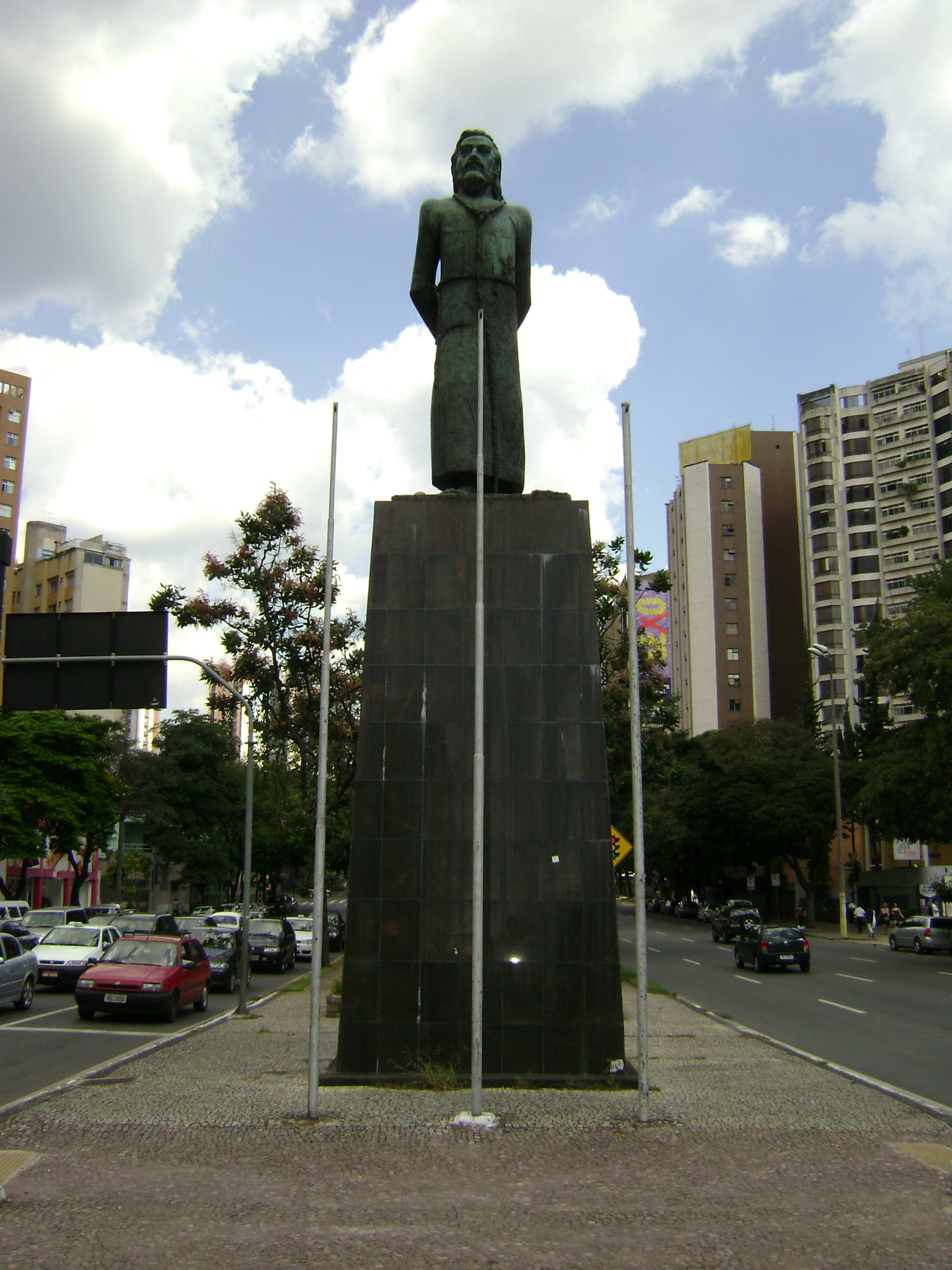 Praça Tiradentes, em Belo Horizonte.